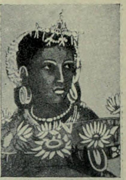 Hutchinson's story of the nations, containing the Egyptians, the Chinese, India, the Babylonian nation, the Hittites, the Assyrians, the Phoenicians and the Carthaginians, the Phrygians, the Lydians, and other nations of Asia Minor.